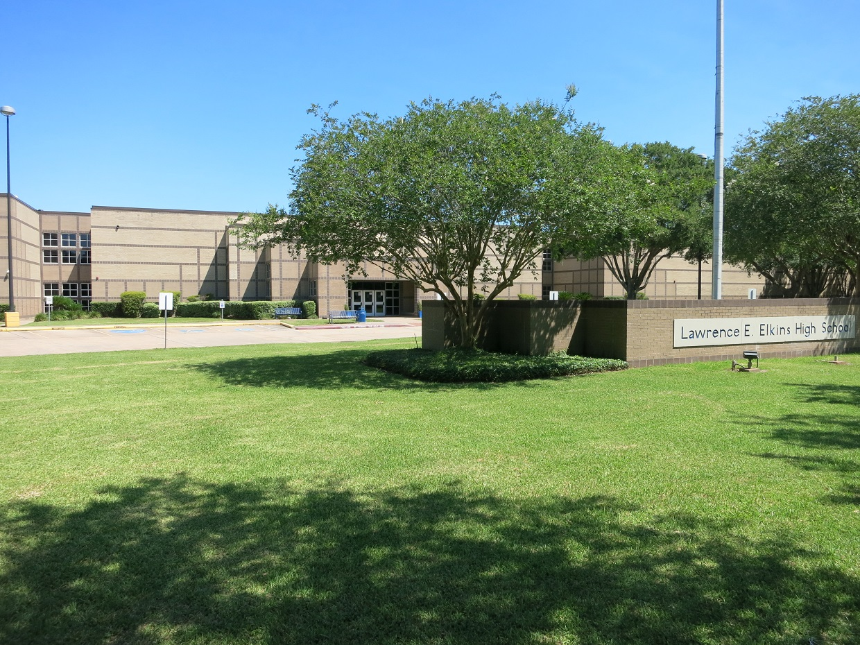 Photo shows Lawrence E. Elkins High School in Fort Bend ISD at 7007 Knights Court, Missouri City, TX 77459. View is toward the north.